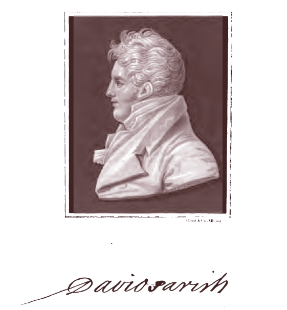 Portrait and signature of David Parish. Portrait is from an engraved miniature painted on ivory by Spornberg in Cheltenham, England, in 1810.